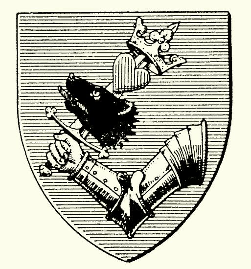 The old coat of arm of Marosvásárhely (Székelyvásárhely)